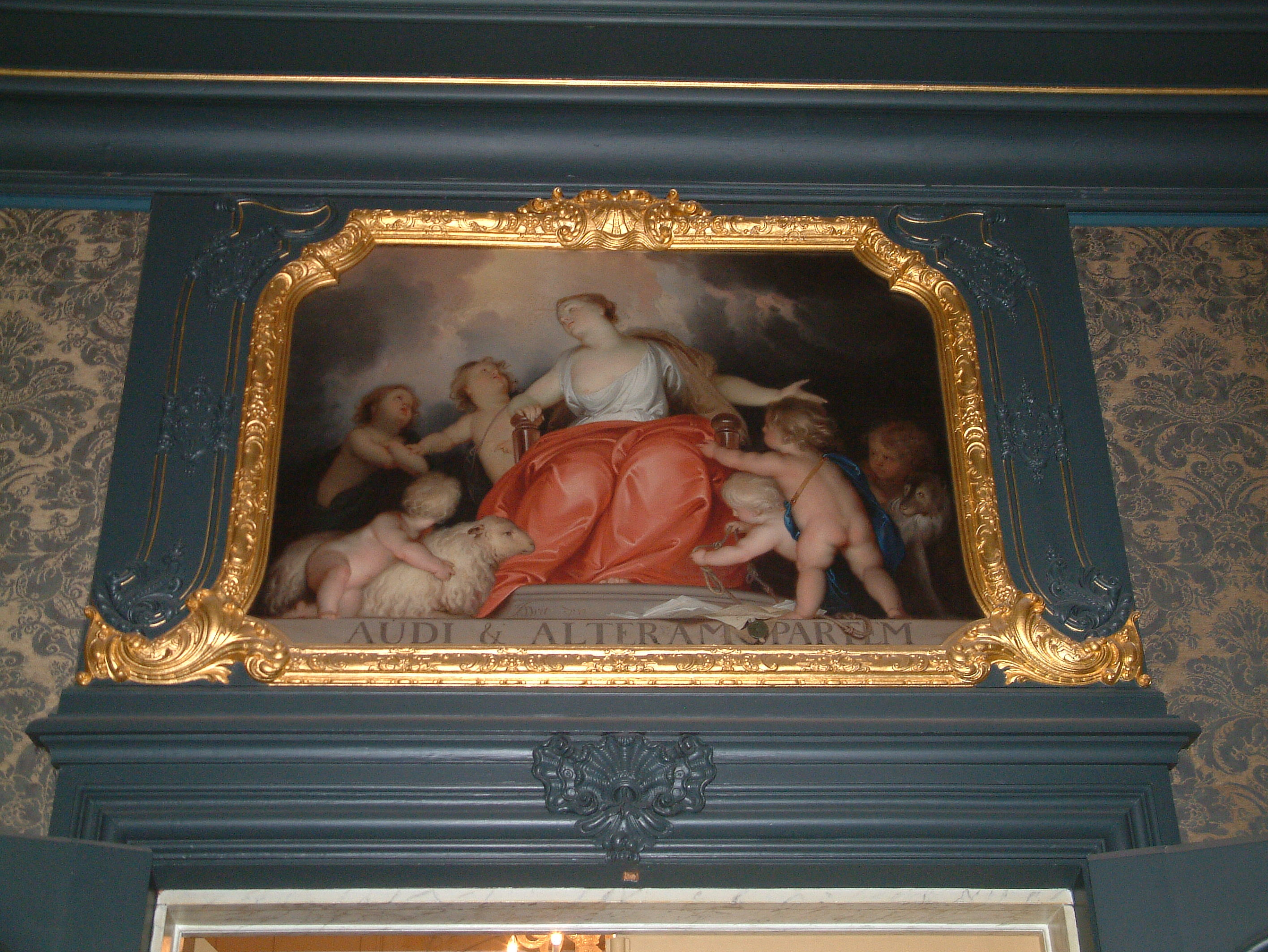 The old townhall of The Hague This image is available from the Netherlands Institute for Art Historyunder digital ID 106150. This tag does not indicate the copyright status of the attached work. A normal copyright tag is still required. See Commons:Licensing.